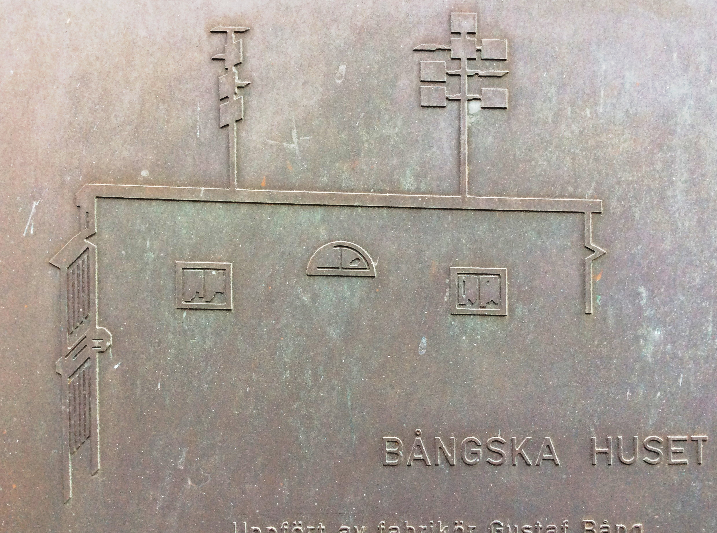 Bronsplakett på Bångska huset, Fiskargatan 4, Stockholm